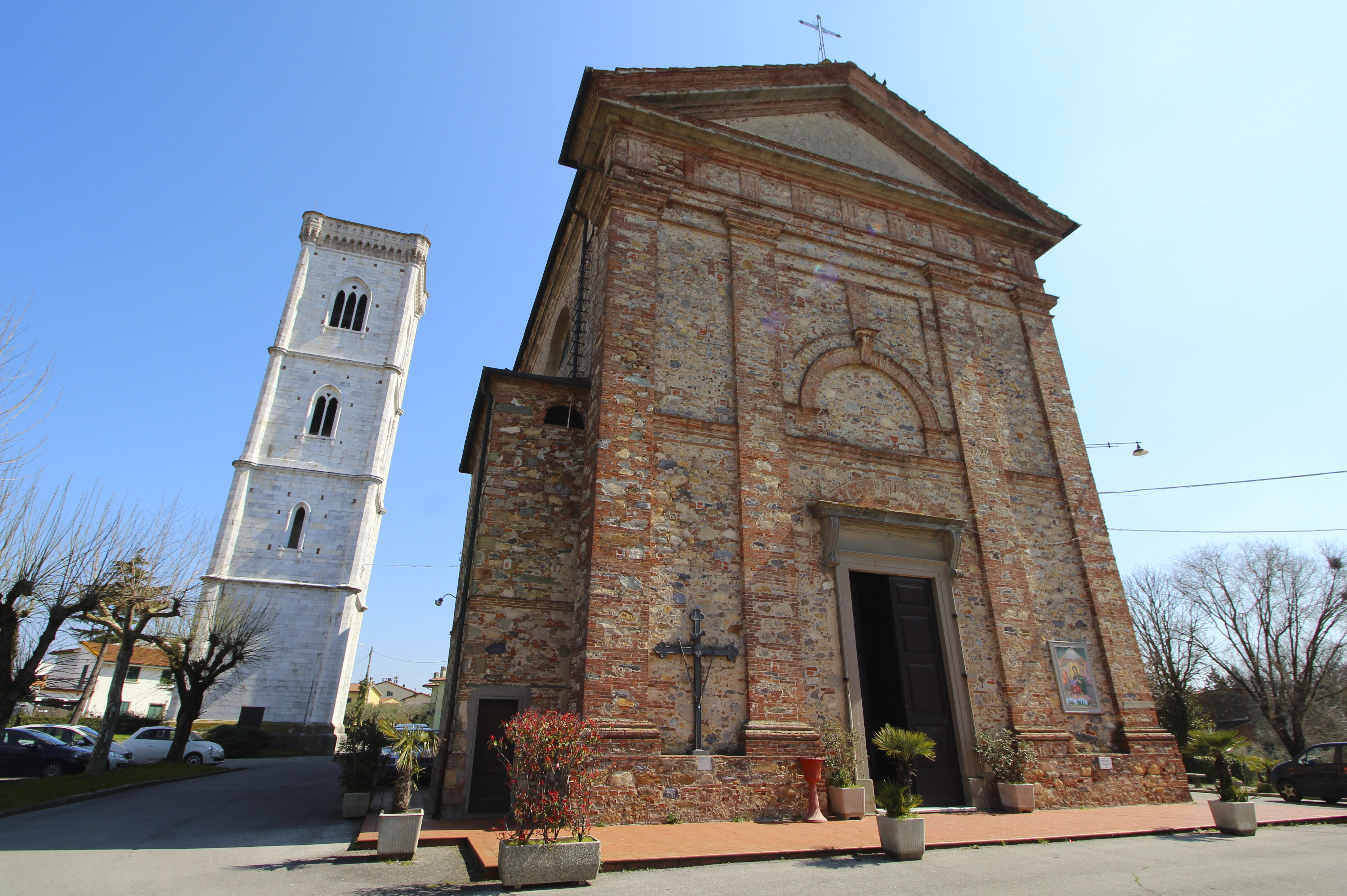 Church San Lorenzo, Orentano, hamlet of Castelfranco di Sotto, Province of Pisa, Tuscany, Italy